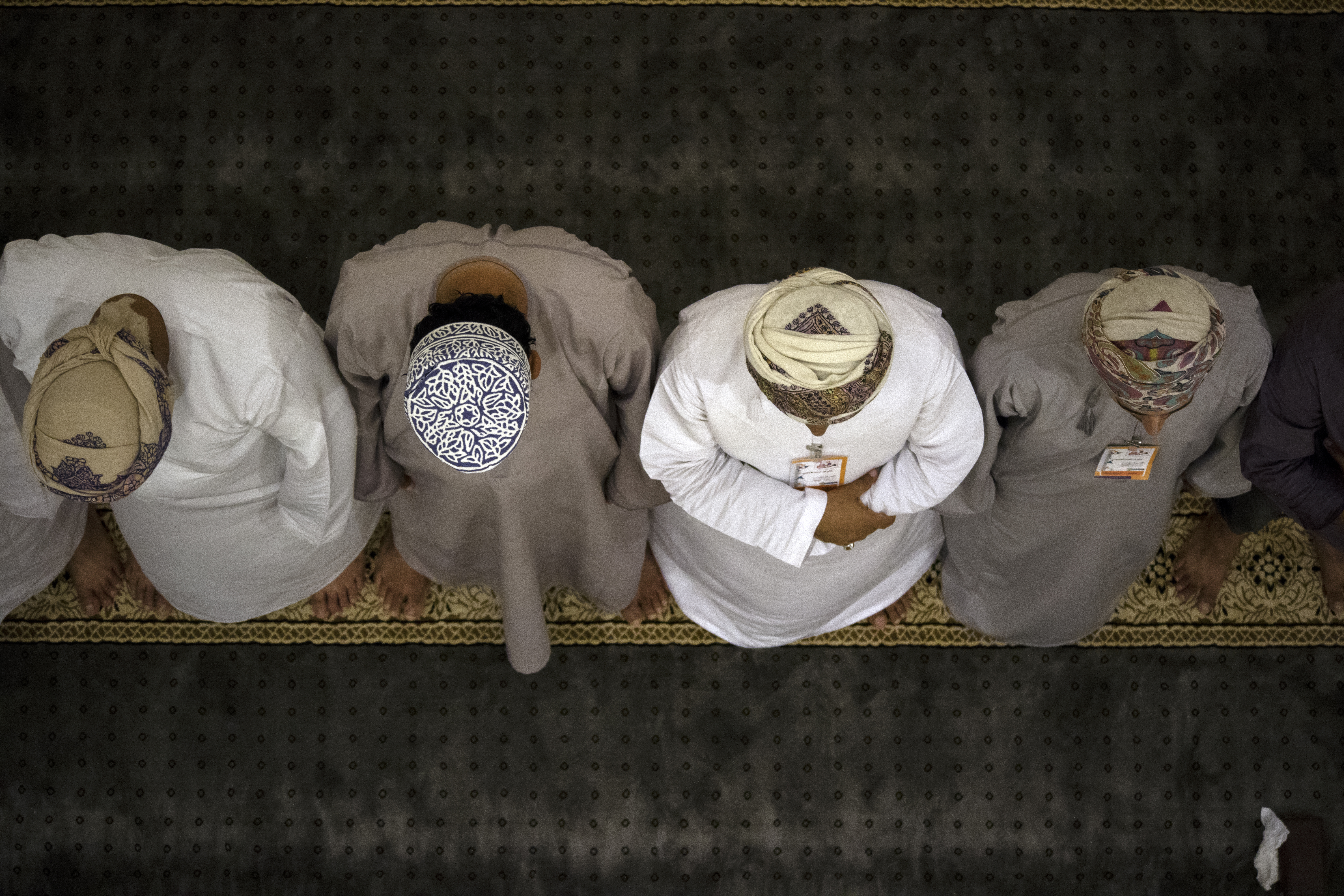 Omanis (Arabic: الشعب العماني) are the nationals of Oman. Omanis have inhabited the territory that is now Oman for thousands of years. In the eighteenth century, an alliance of traders and rulers transformed Muscat (Oman's capital) into the leading port of the Persian Gulf. Omani people are ethnically diverse, the Omani citizen population consists of many different ethnic groups. The majority of the population consists of Arabs, with many of these Arabs being Swahili language speakers and returnees from the Swahili Coast, particularly Zanzibar. Additionally, there are ethnic Balochis, Lurs, Lawatis, Swahili and Mehri. Omani citizens make up the majority of Oman's total population. Over one and a half million other Omanis live in other areas of the Middle East and the Swahili Coast.